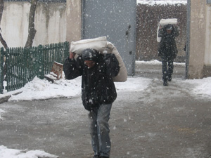 Supplies are carried in Tajikistan during the harsh 2007-2008 winter.